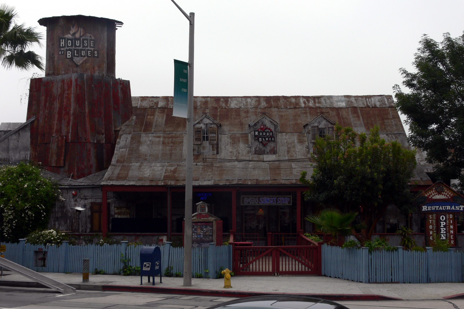 House of Blues Sunset, 8430 W. Sunset Blvd., W. Hollywood, CA. Photograph by Mike Dillon, May 10, 2006.